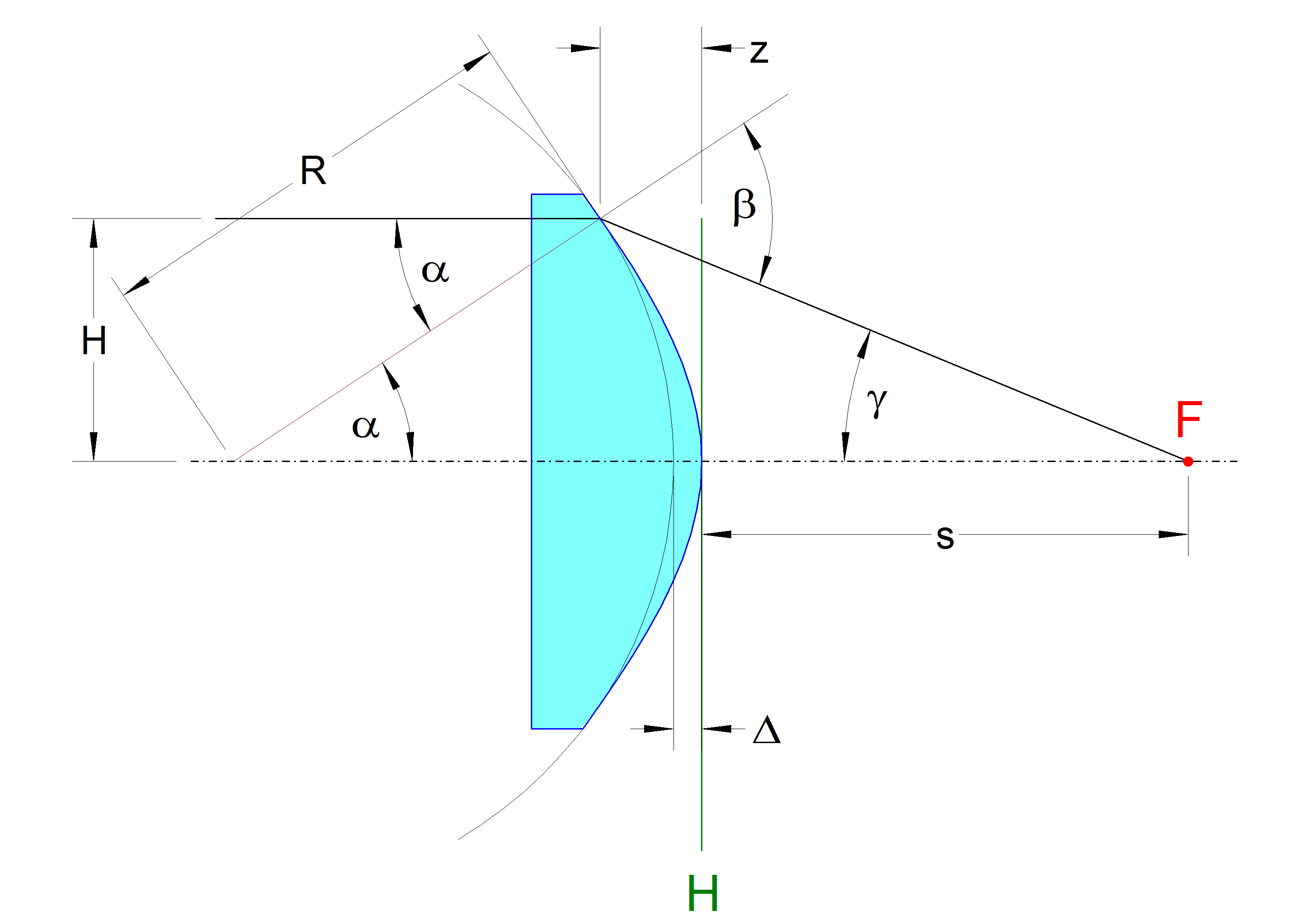 Geometric realations at an aspheric plano-convex lens